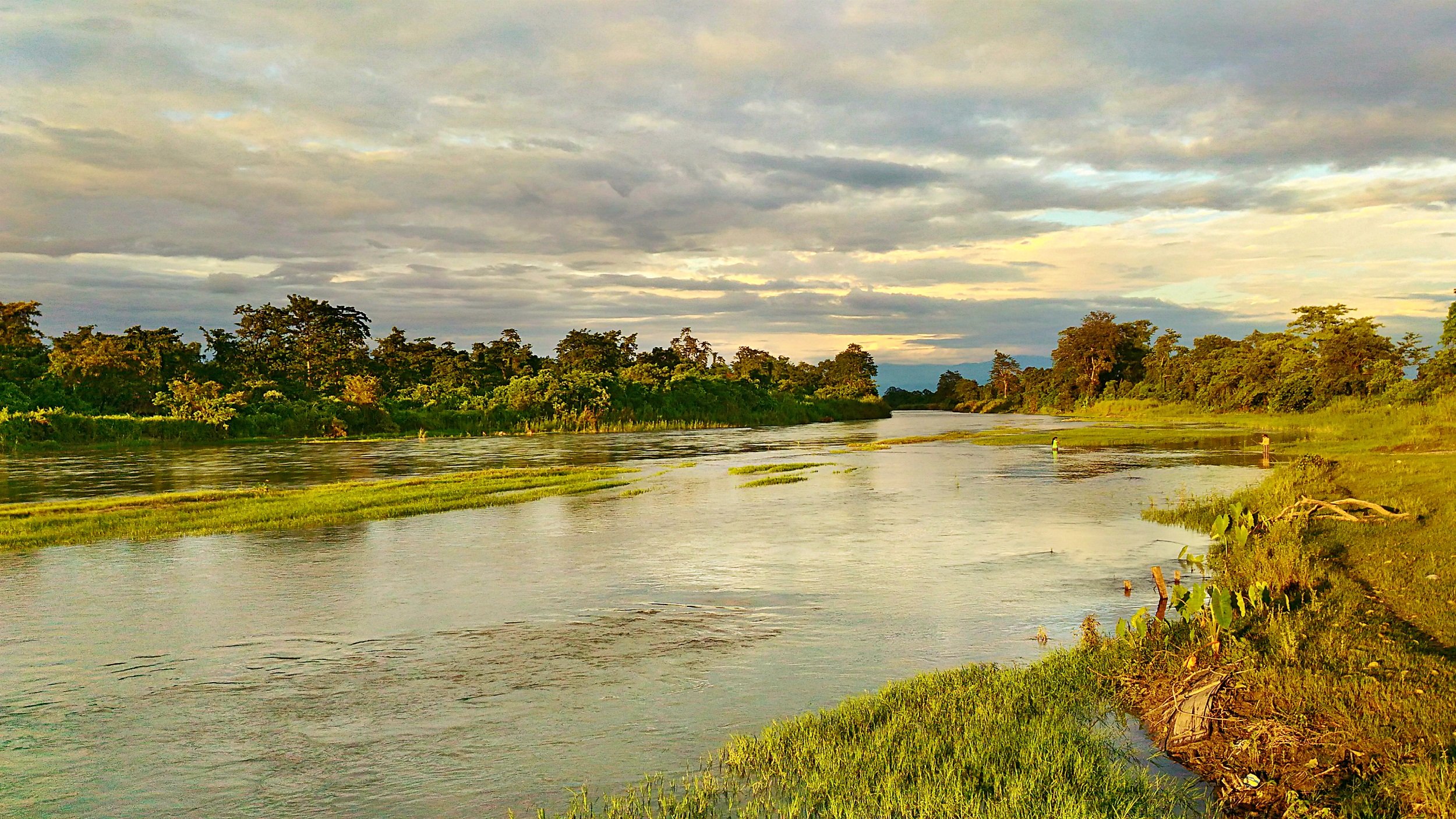 Dihing River at Namsai in Arunachal Pradesh (photo - Jim Ankan Deka)